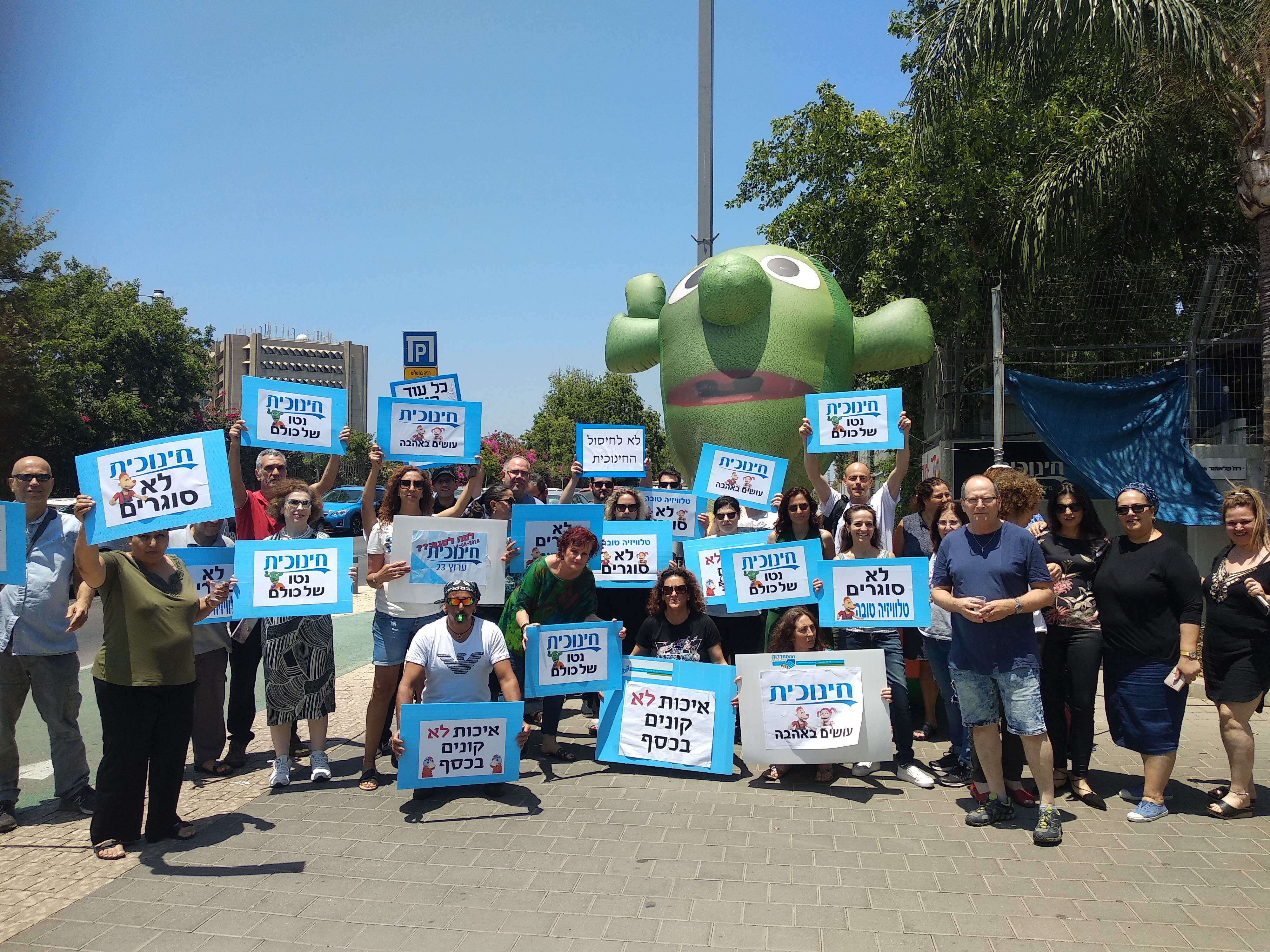 Israeli Educational Television's workers Demonstrating against the closure of the station.